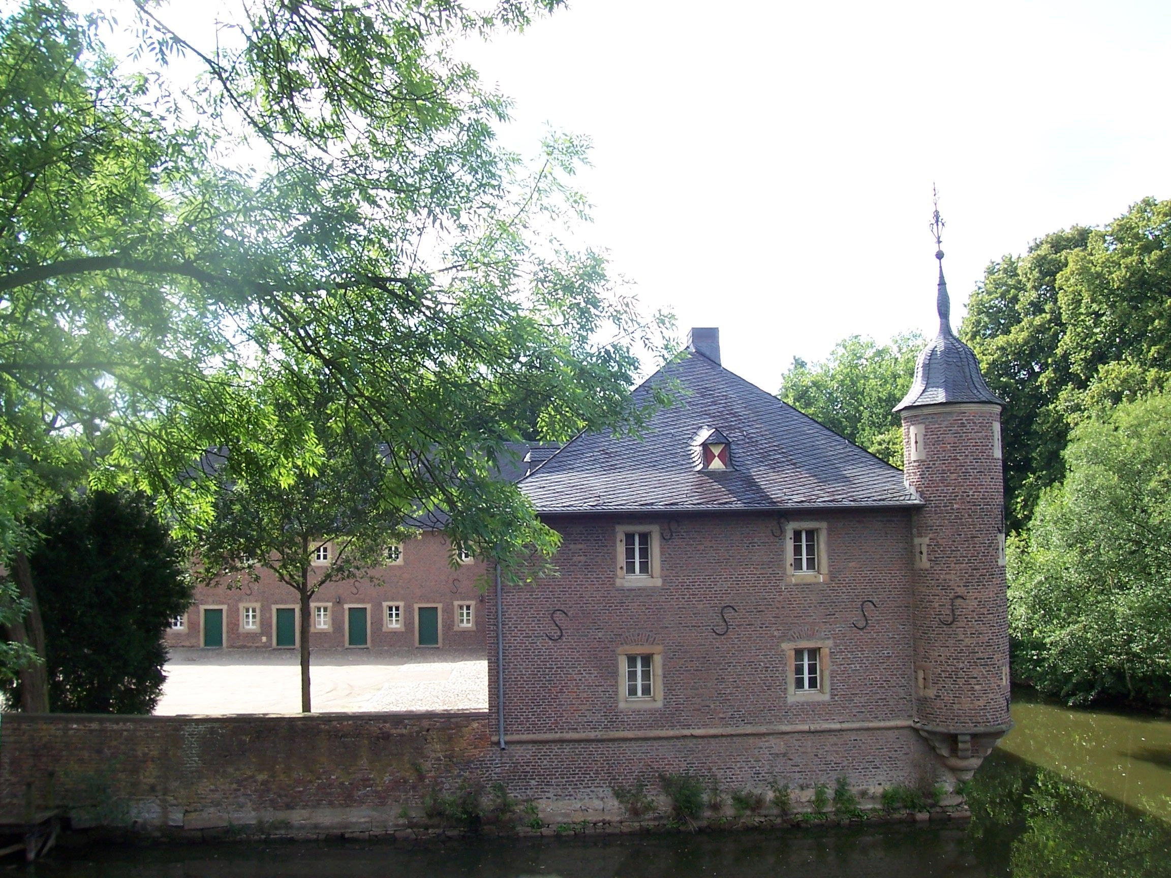 the forework of Schloss Burgau, a castle in Düren-Niederau